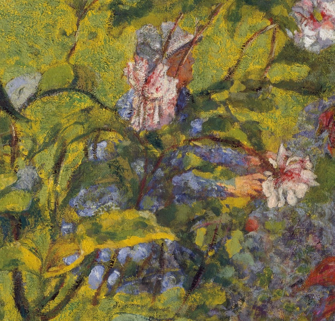 Detail from Garden of Vaucrasson